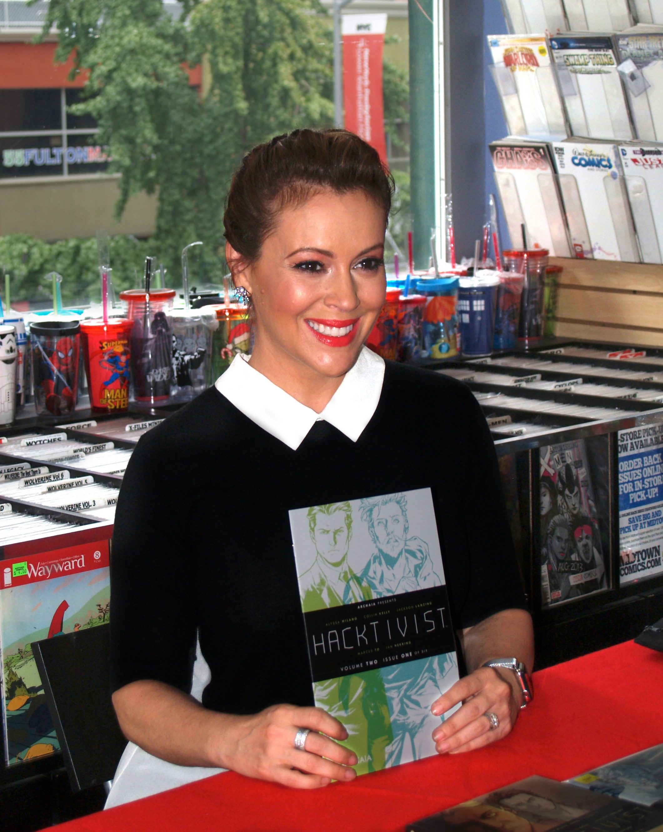 Actress Alyssa Milano at a September 12, 2015 book signing at Midtown Comics Downtown in Manhattan for her graphic novel, Hacktivist. This photo was created by Luigi Novi. It is not in the public domain, and use of this file outside of the licensing terms is a copyright violation.